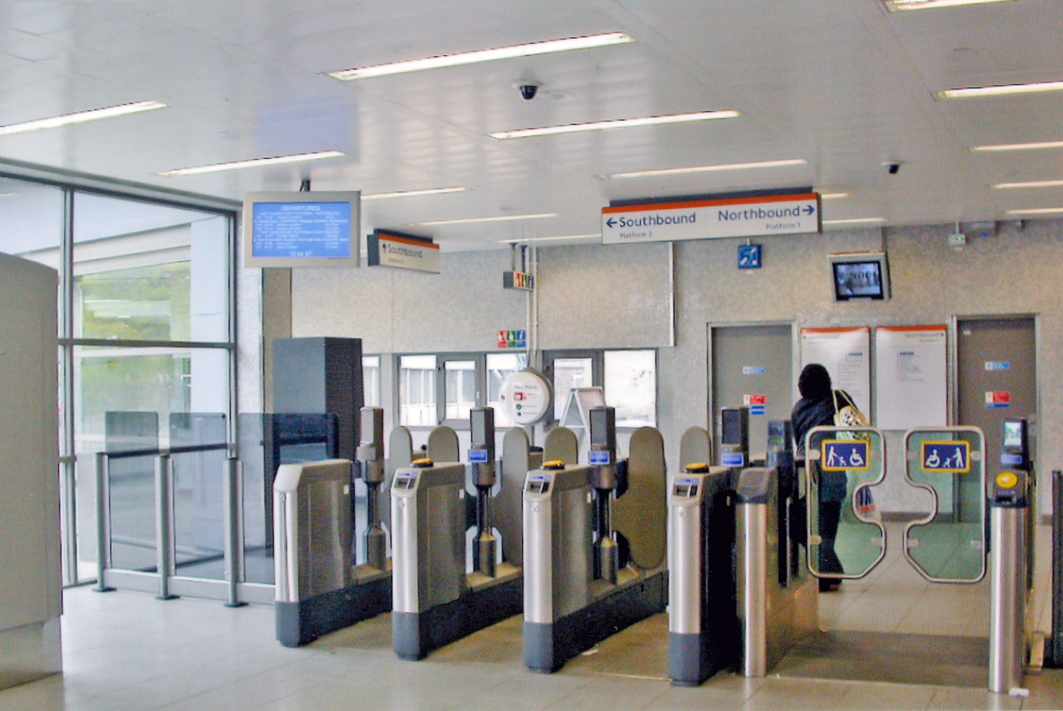 Surrey Quays Station, new entrance barriers. The renovated London Overground station had only just been opened